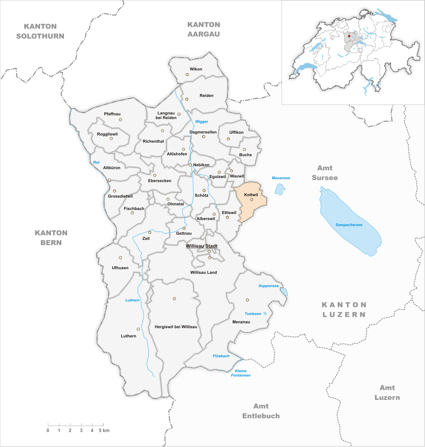 Municipality Kottwil Artist: Tschubby